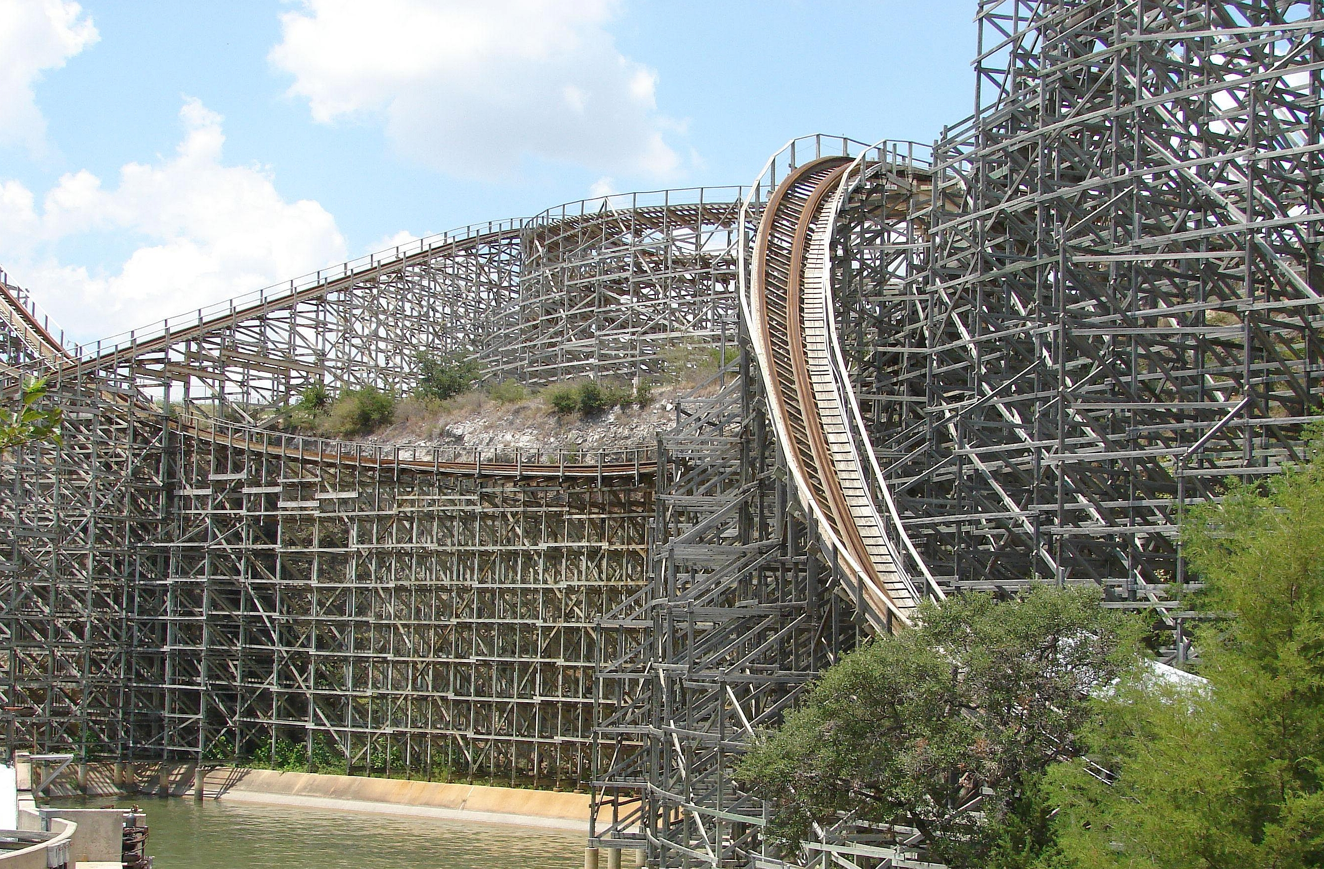 Crop of File:FiestaTexas10.jpg